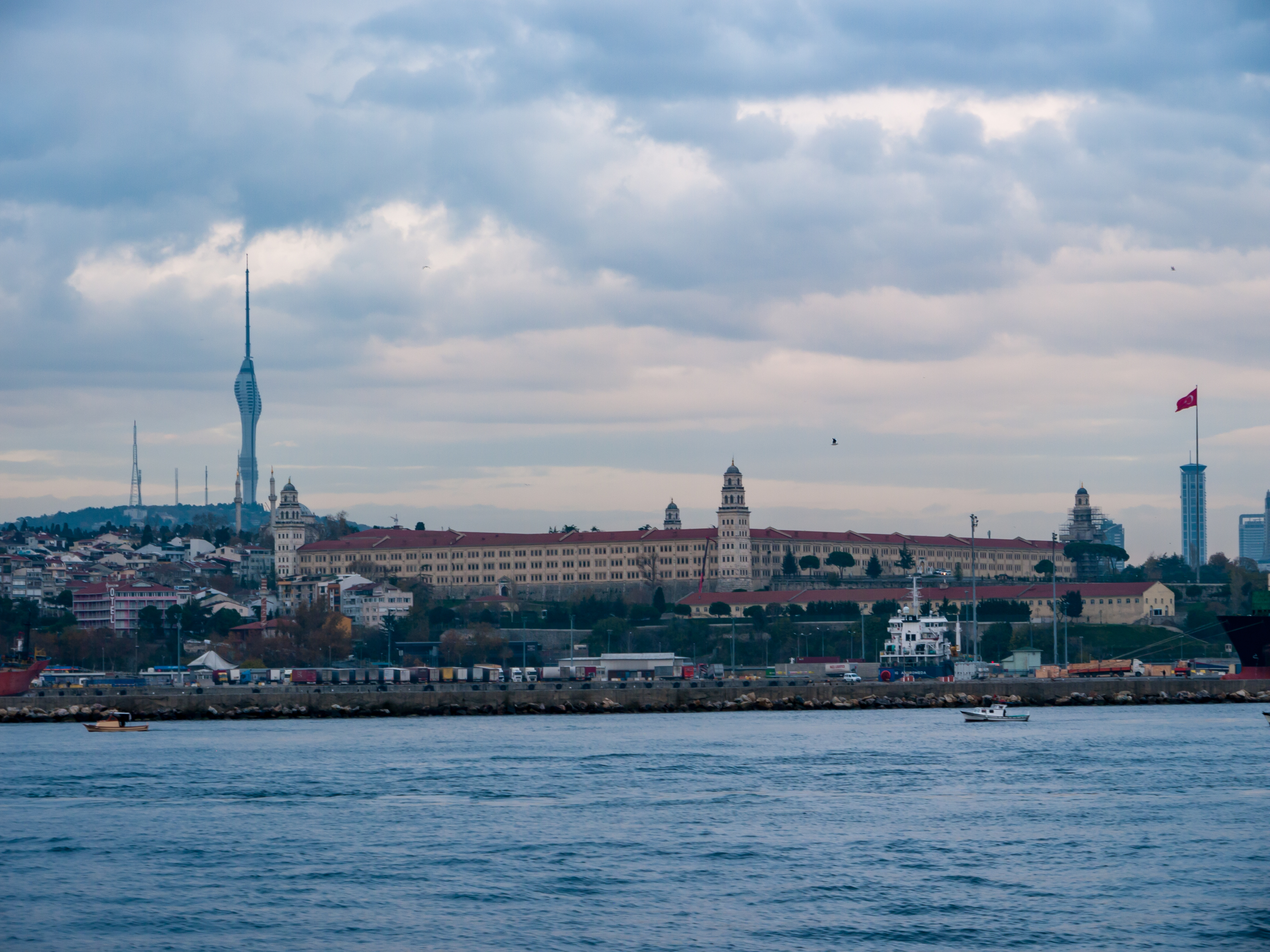 Üsküdar